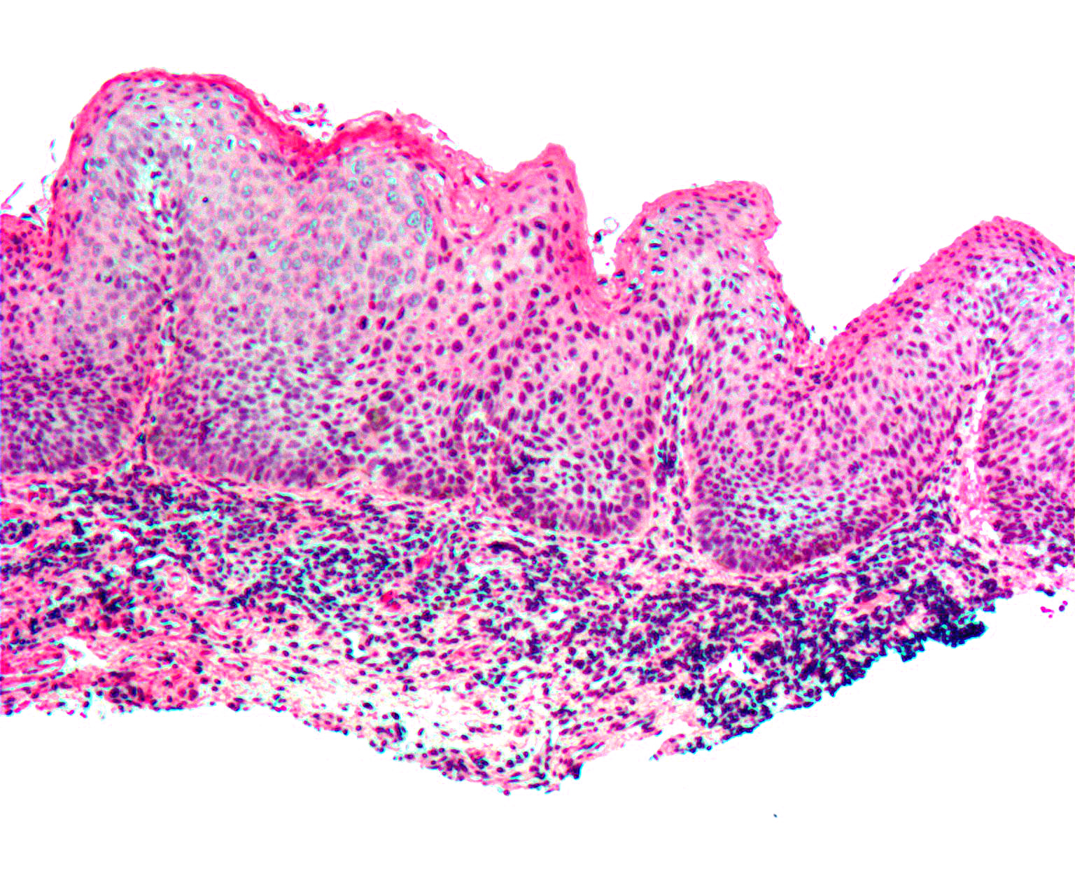 Micrograph of vulvar intraepithelial neoplasia III (VIN III). H&E stain. See also Image:Vulvar_intraepithelial_neoplasia3_1.jpg - high magnification micrograph of VIN III.